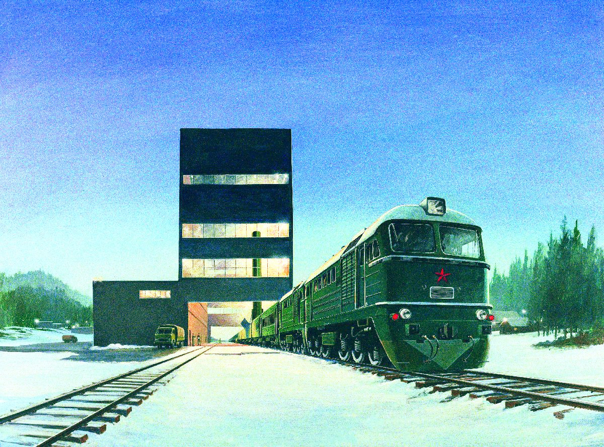 SOVIET RAIL-MOBILE SS-24 MOD 1 The accuracy and survivability of the rail-mobile SS-24 deployed in the 1980s significantly increased the lethality of the USSR's intercontinental ballistic missile force. This missile could be deployed throughout the Soviet Union.